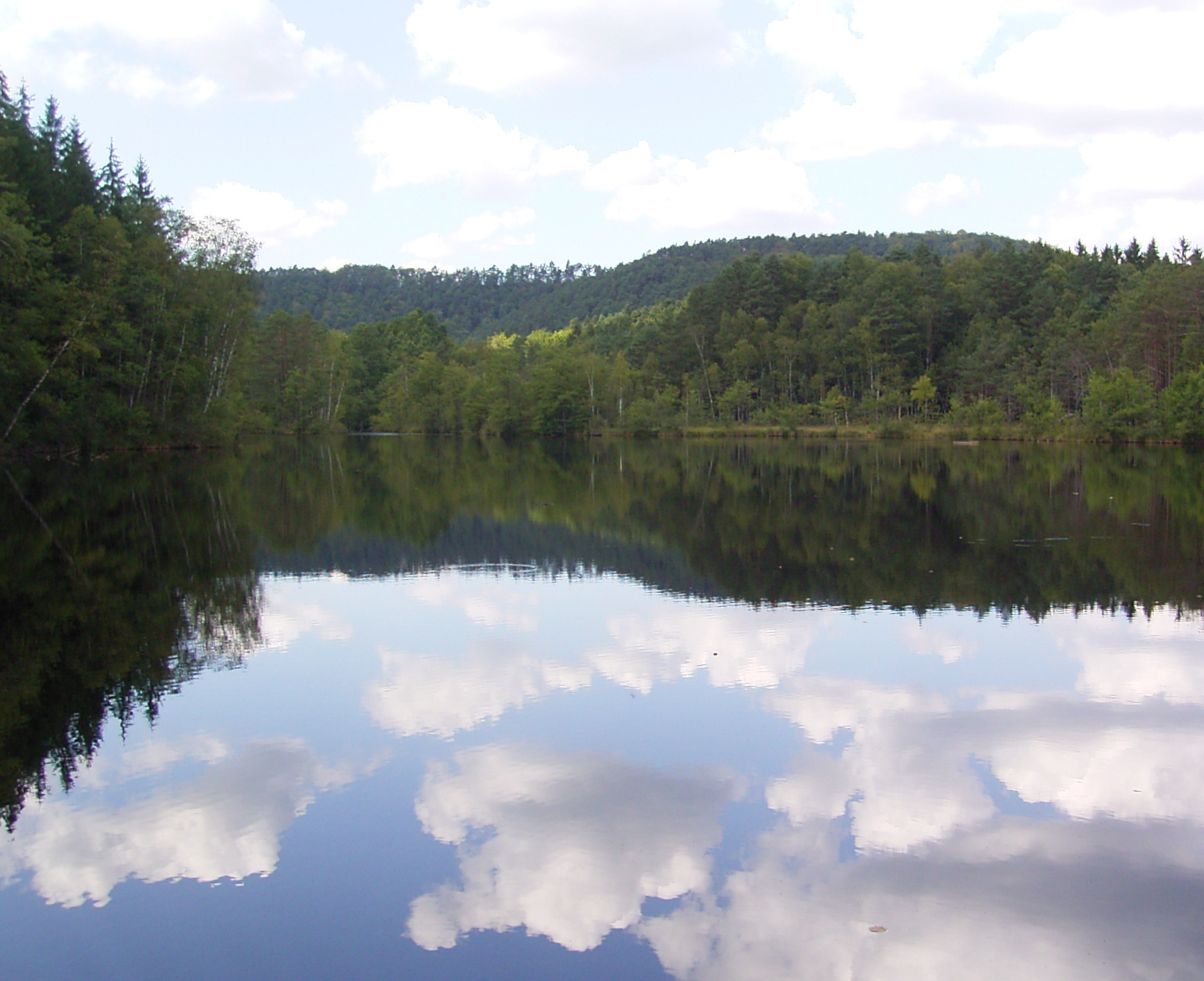 Erbsenthal pond, Eguelshardt, Moselle, France